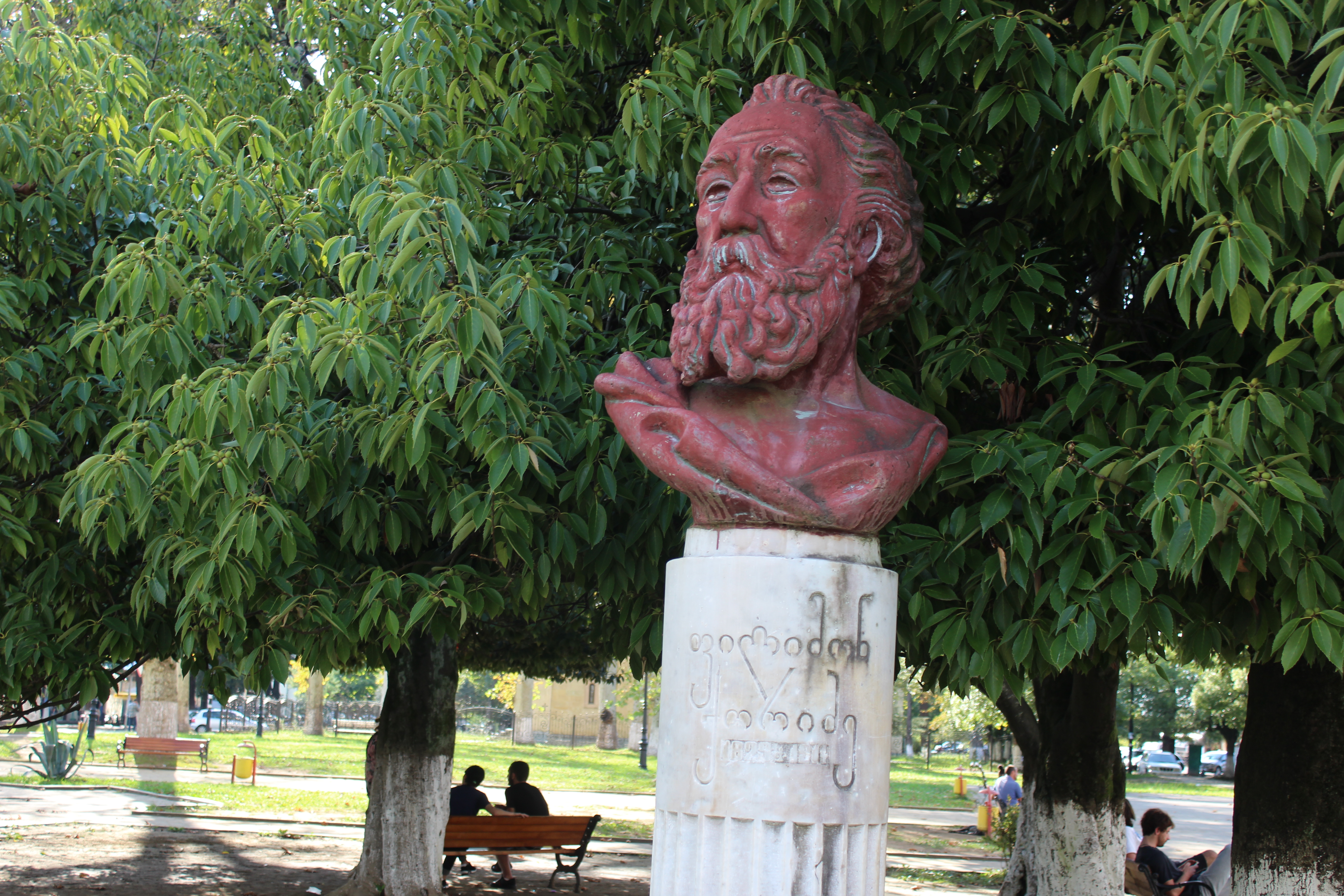 Philimon Koridze Statue